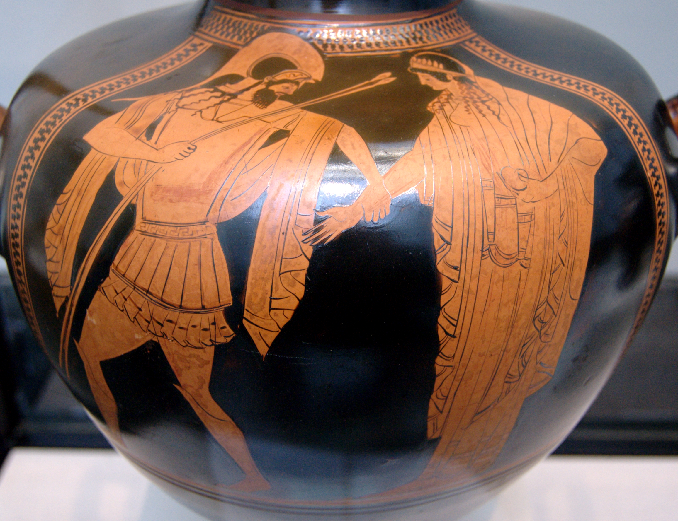 Recovery of Helen by Menelaus. Attic red-figure hydria, ca. 480 BC.